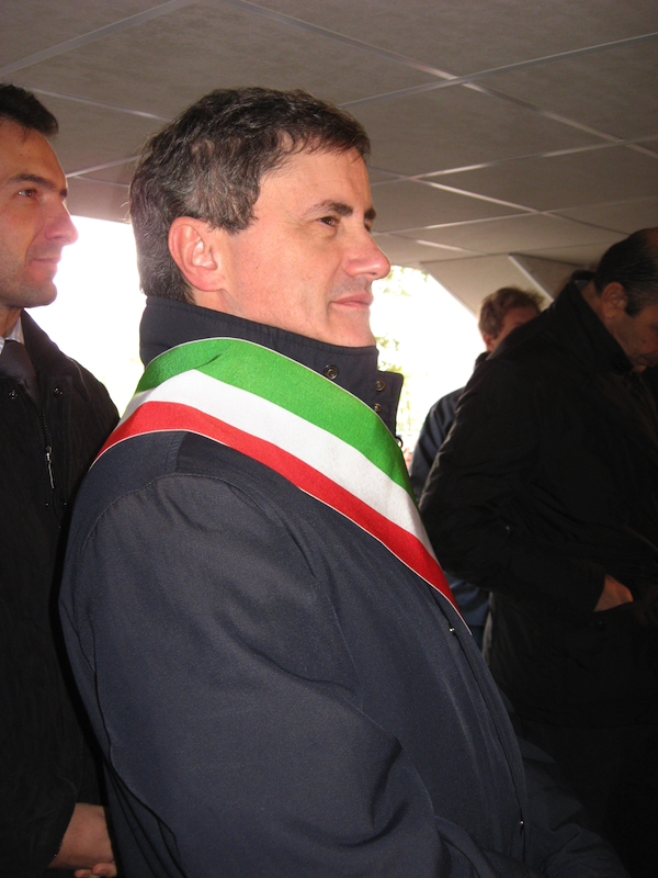 Gianni Alemanno, Mayor of Rome.